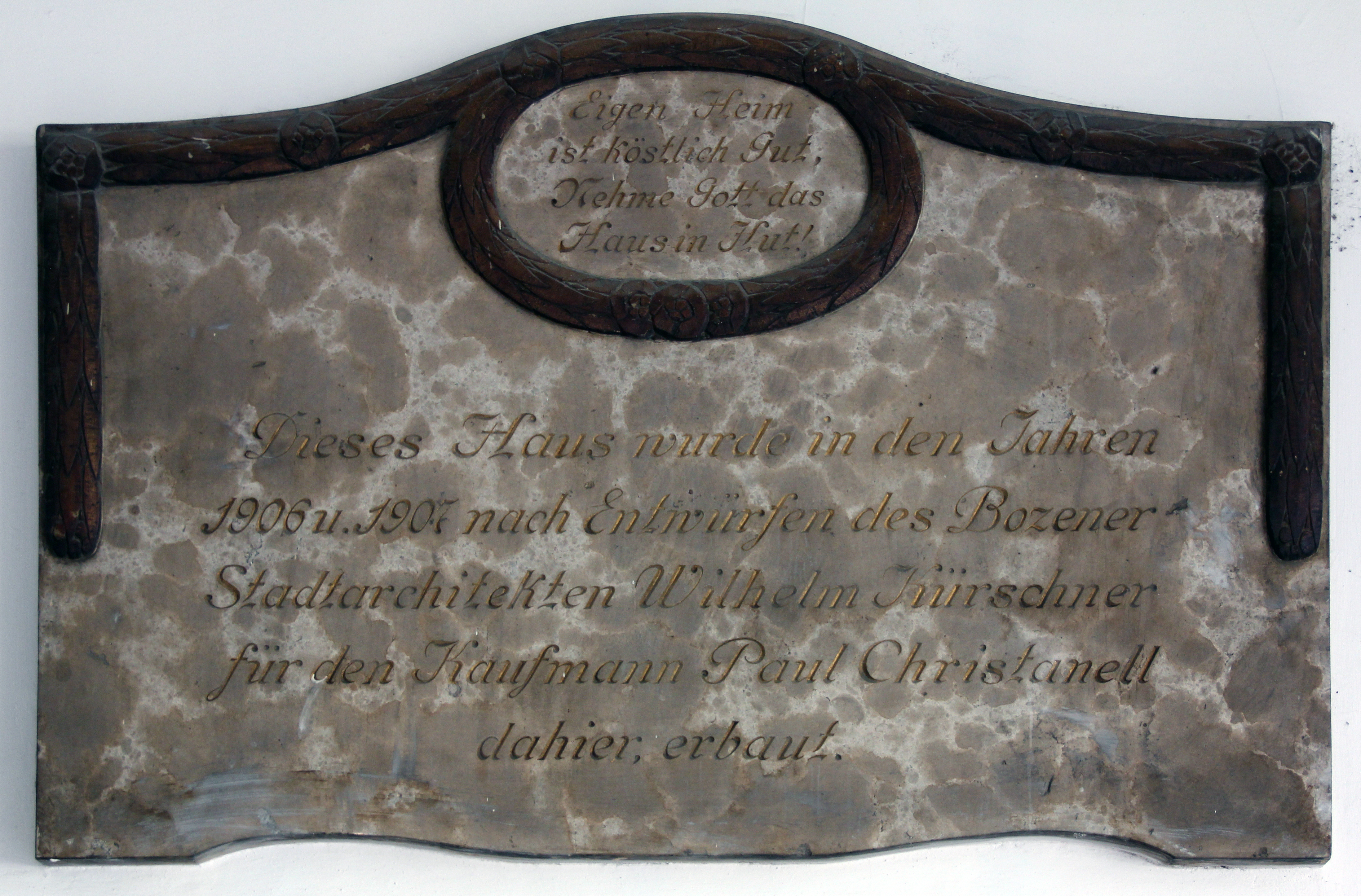 Memorial plaque, Wilhelm Kürschner, Bahnhofsallee 7, Bozen, Italy